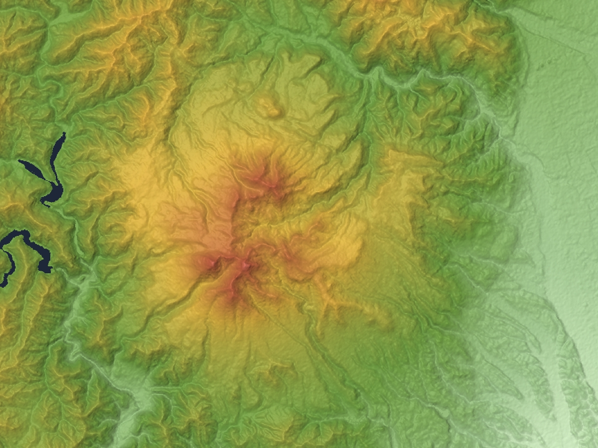 Mount Takahara is a volcano in Tochigi Prefecture, Honshu, Japan.